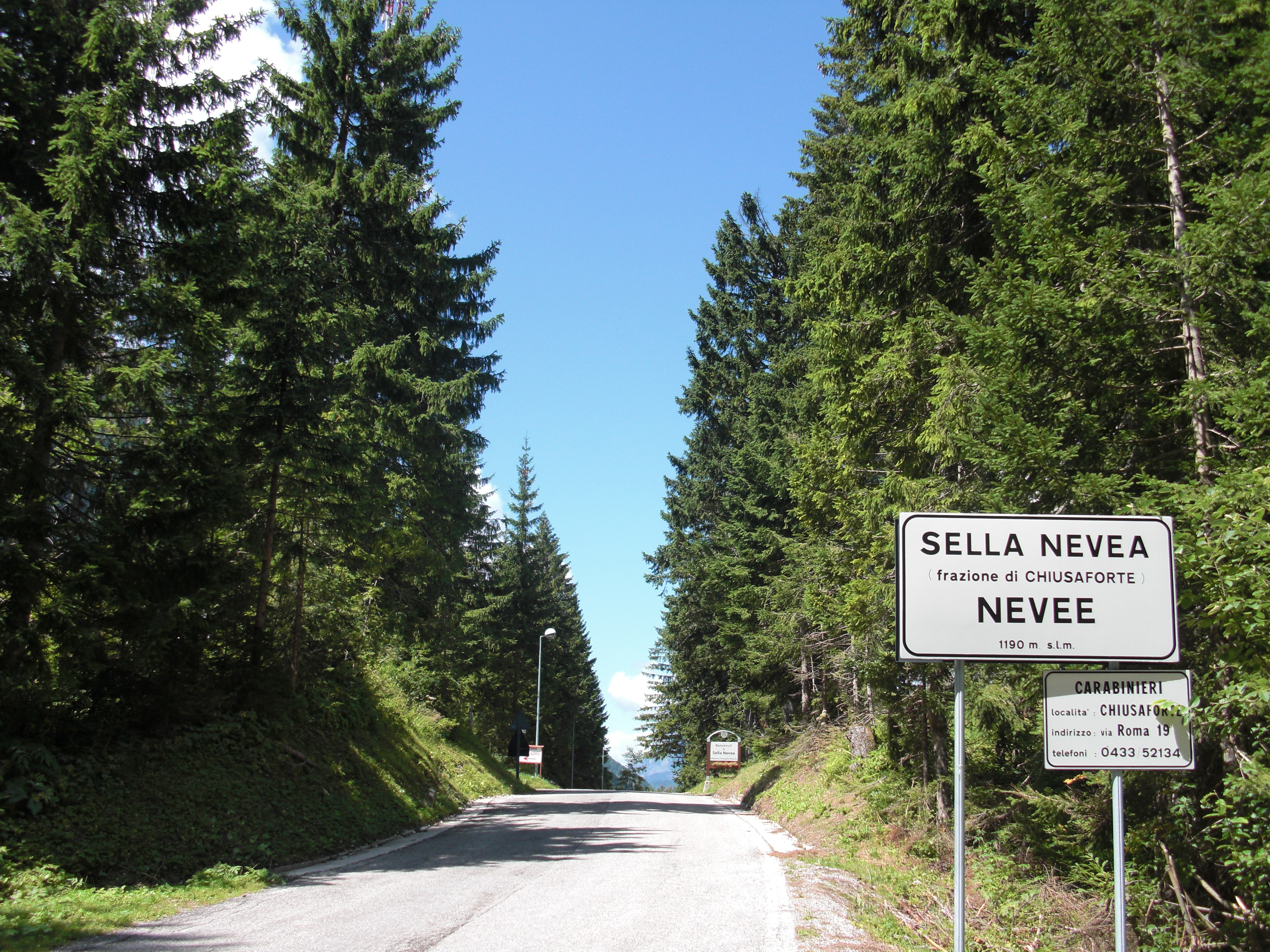 Sella Nevea: Pass Summit